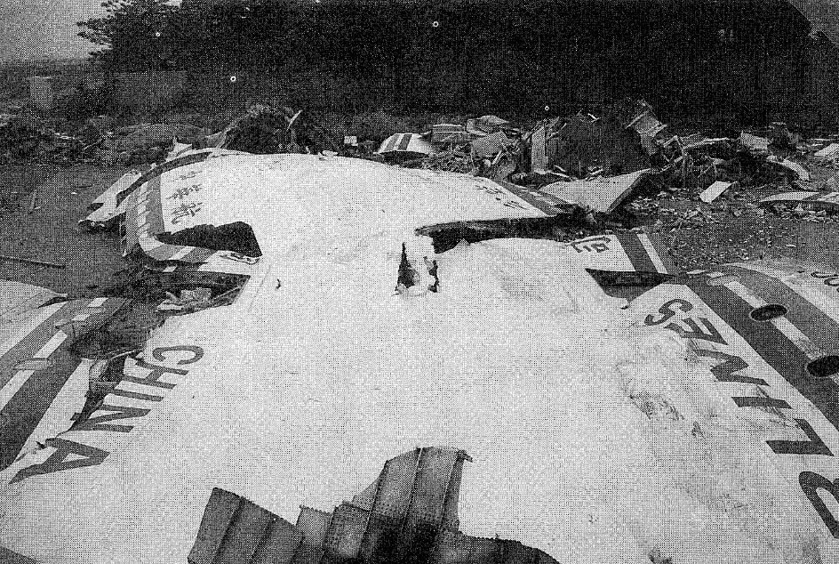 China Airlines Flight 140 wreckage